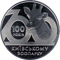 Coin of Ukraine